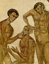 Hand drawn picture from book 'Peri Arthron'